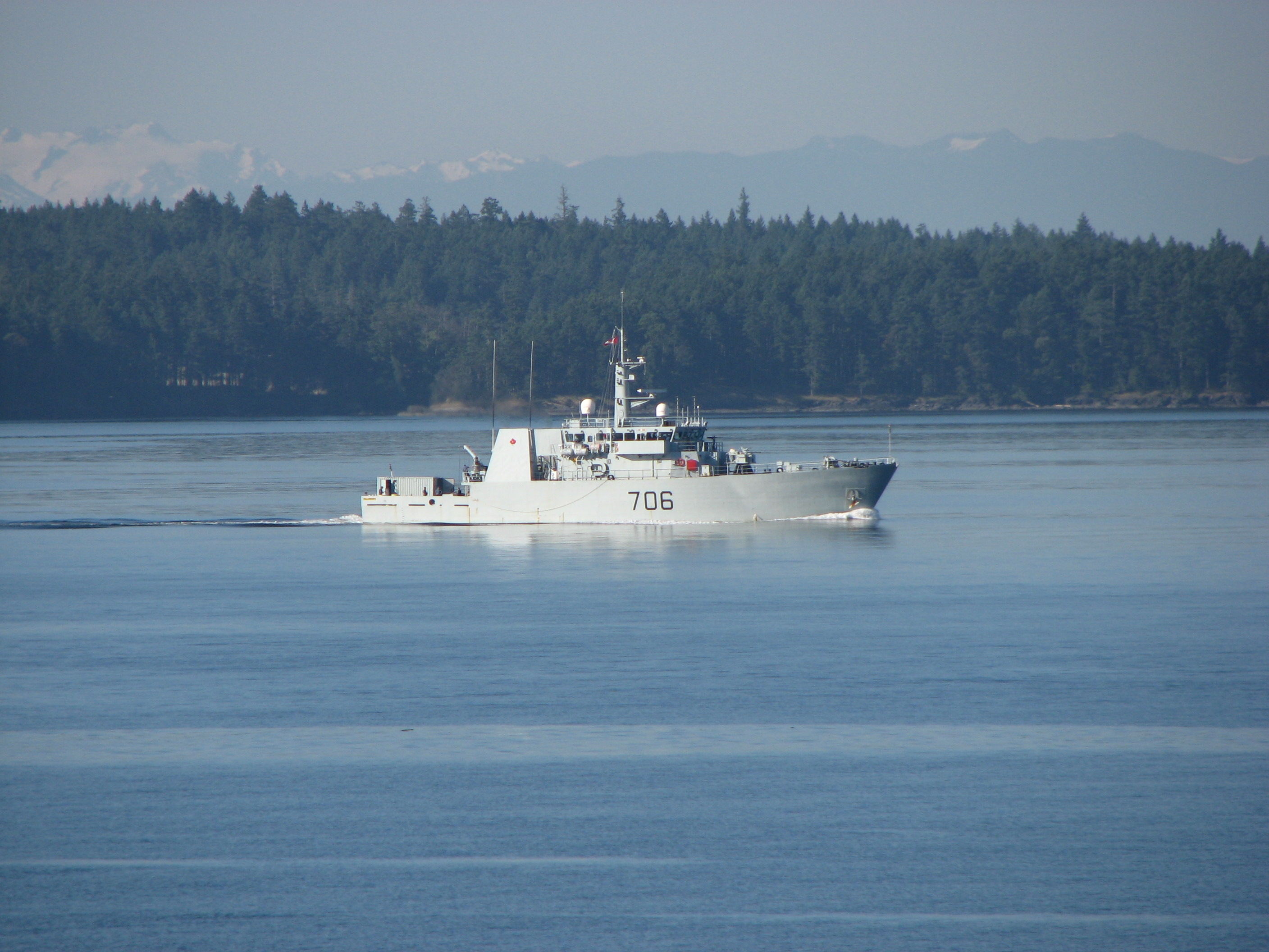 The Canadian Naval Ship HMCS Yellowknife